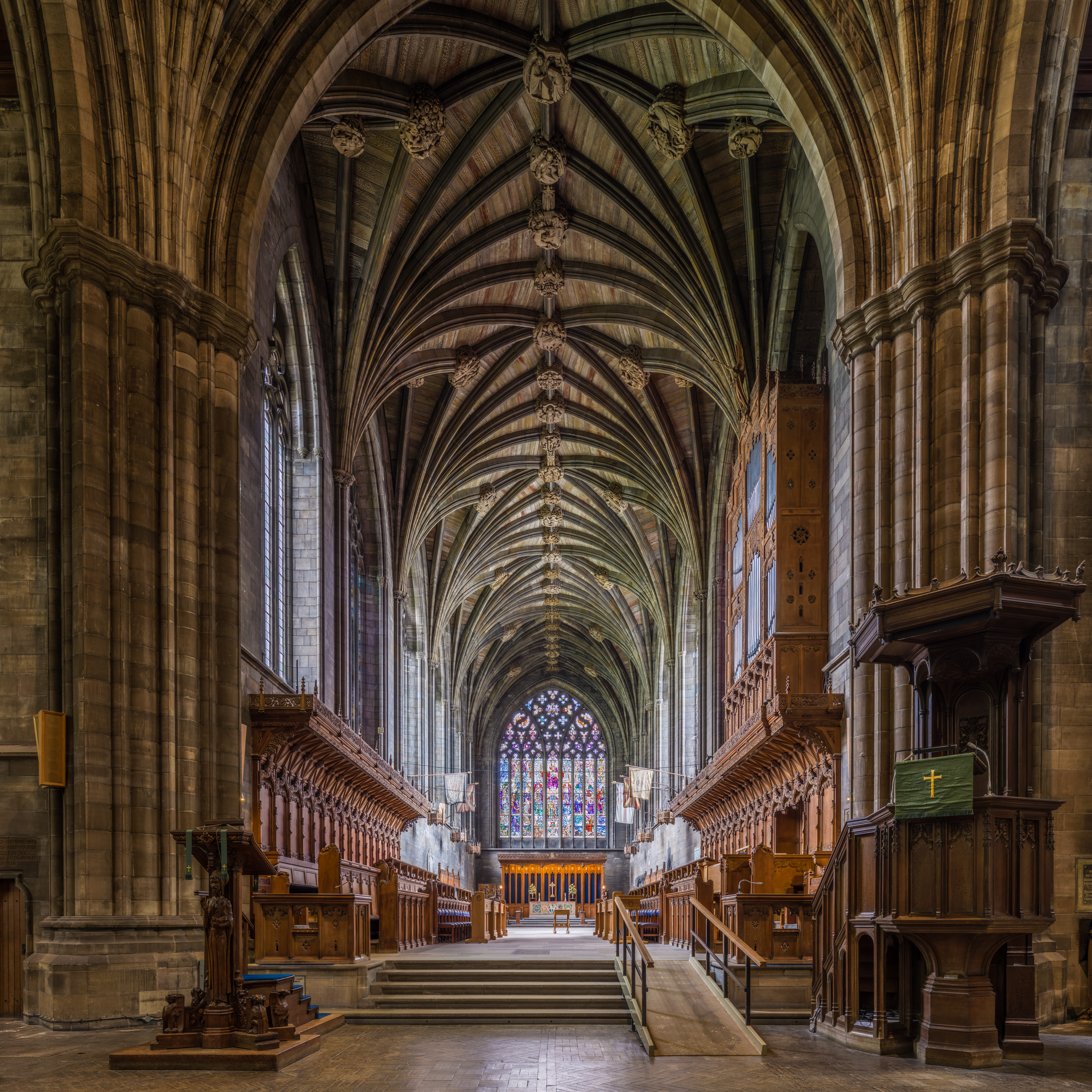 Paisley Abbey interior. Looking east from the transept towards the choir and Great East Window.